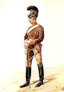 Cavalry soldier of Napoleon's Portuguese Legion, in 1808. Painting by Artur Ribeiro.